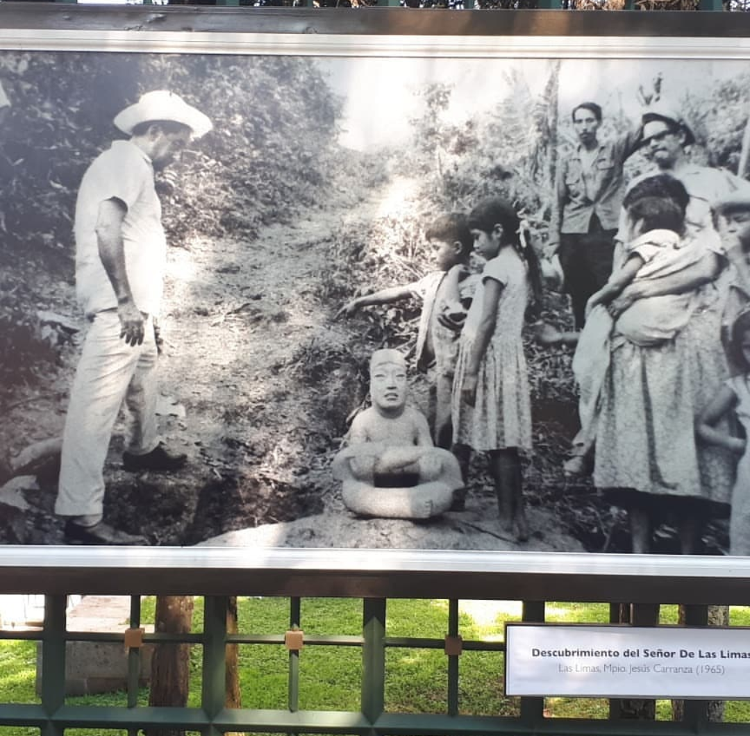 municipal president of Jesus Carranza, Veracruz. Raymundo Herrera poses